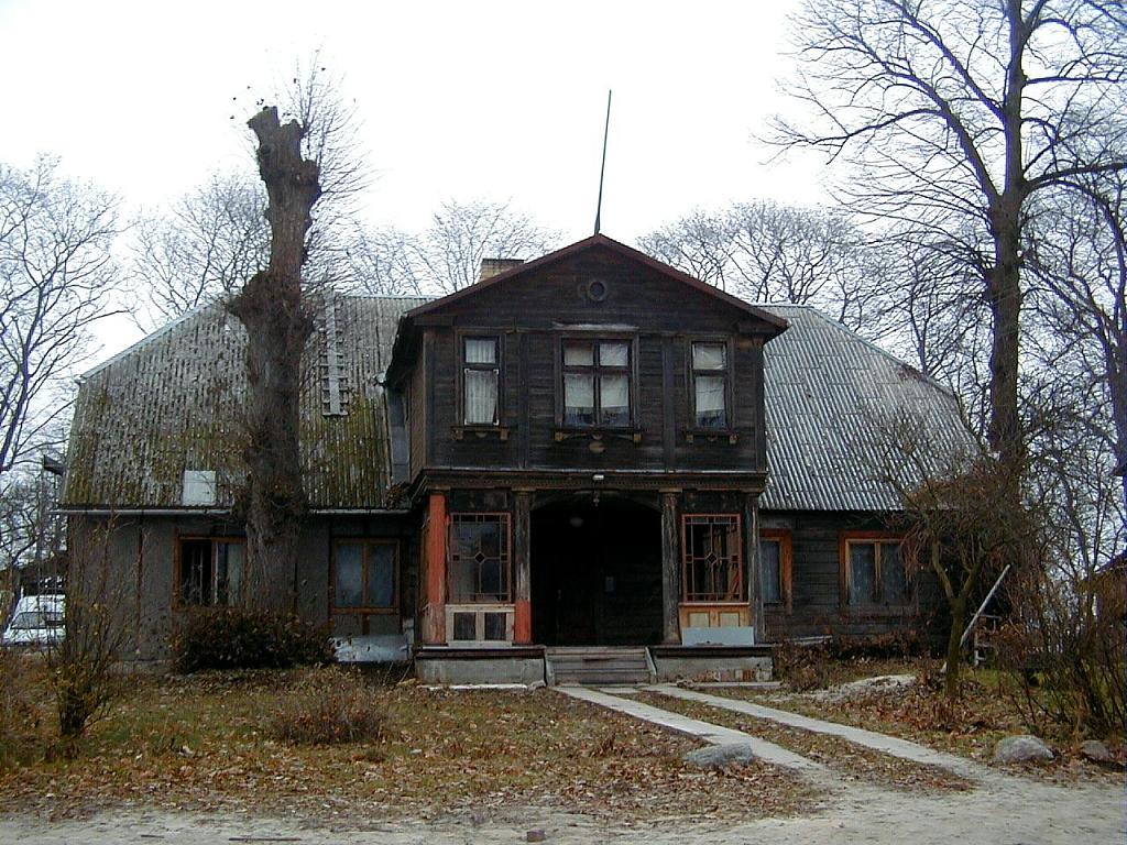 manor near Jugla lake